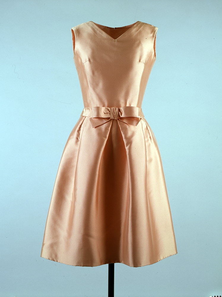 Maker: Oleg Cassini (American, b. France, 1913-2006) Date(s) of Materials: 1962 Place Made: United States Medium: Ziberline Dimensions: 39 1/2 " center back Description: A sleeveless apricot colored, knee length dress with a slight V neckline. This dress is gathered at waist which is accented with a bow; the skirt is A-line. Historical Note: For a daytime boat ride on Lake Pichola, in Udaipur, India on March 17, 1962, First Lady Jacqueline Kennedy wore this dress and matching coat of such elegant formailty that they would not have been out of place at a fashionable cocktail party. However, the fabric was rigid enough to keep its composure in the heat of India. Its dazzling color and sheen were calculated to ensure that she would be instantly identifiable to the crowds on the distant shore as they watched her barge on its way to the maharana of Udaipur's White Palace, where she was feted that evening.